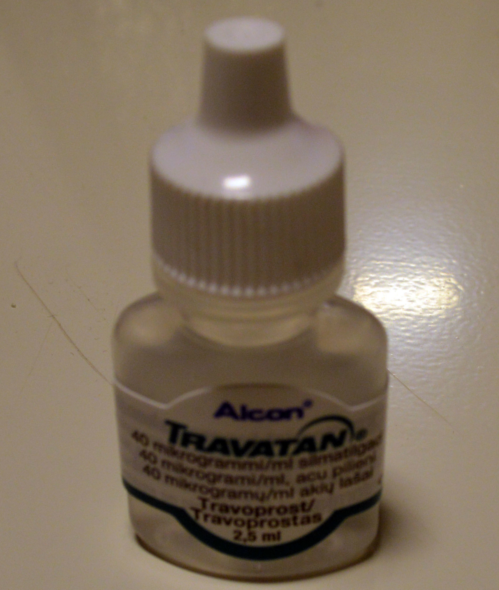 One 2.5 ml bottle of Alcor Travatan